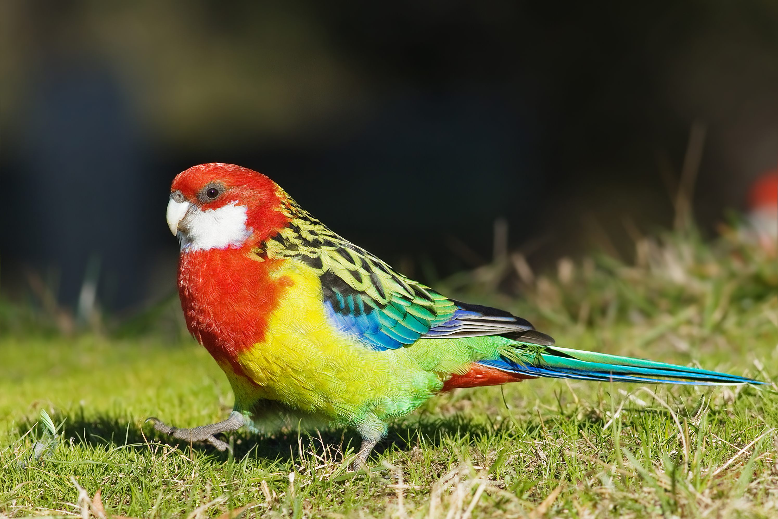 Eastern Rosella (Platycercus eximius), female, Queen's Domain, Hobart, Tasmania, Australia